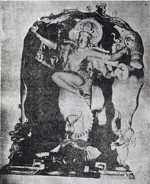 Gajasamharamurti idol at Viratteswara Temple